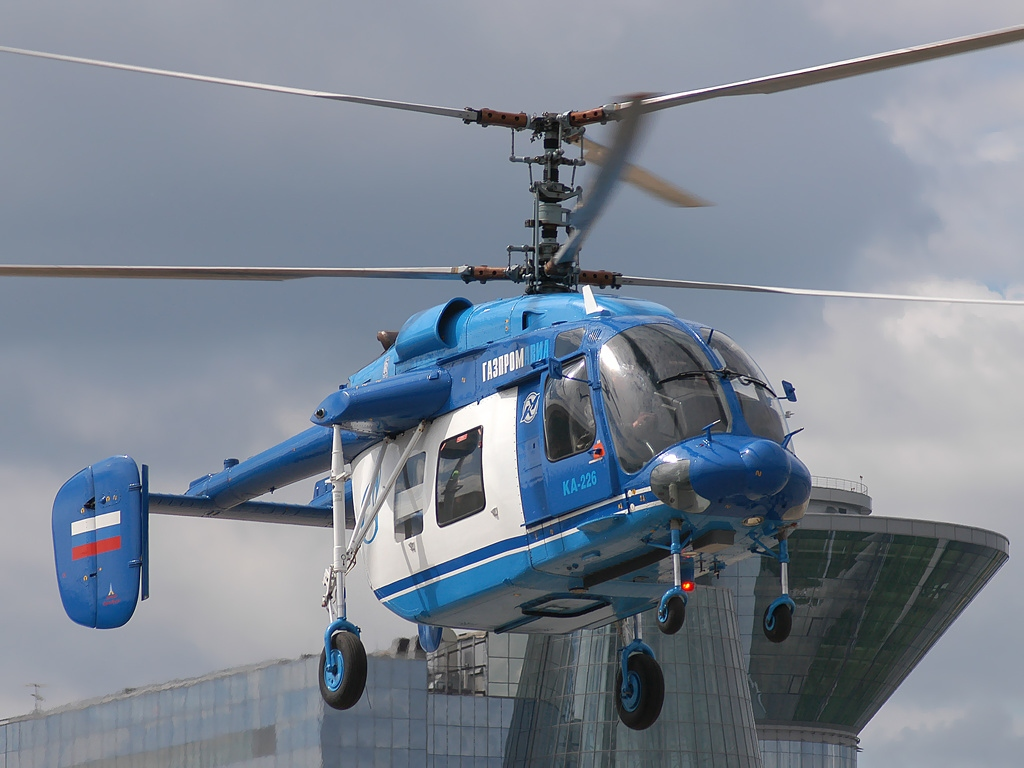 HeliRussia 2009